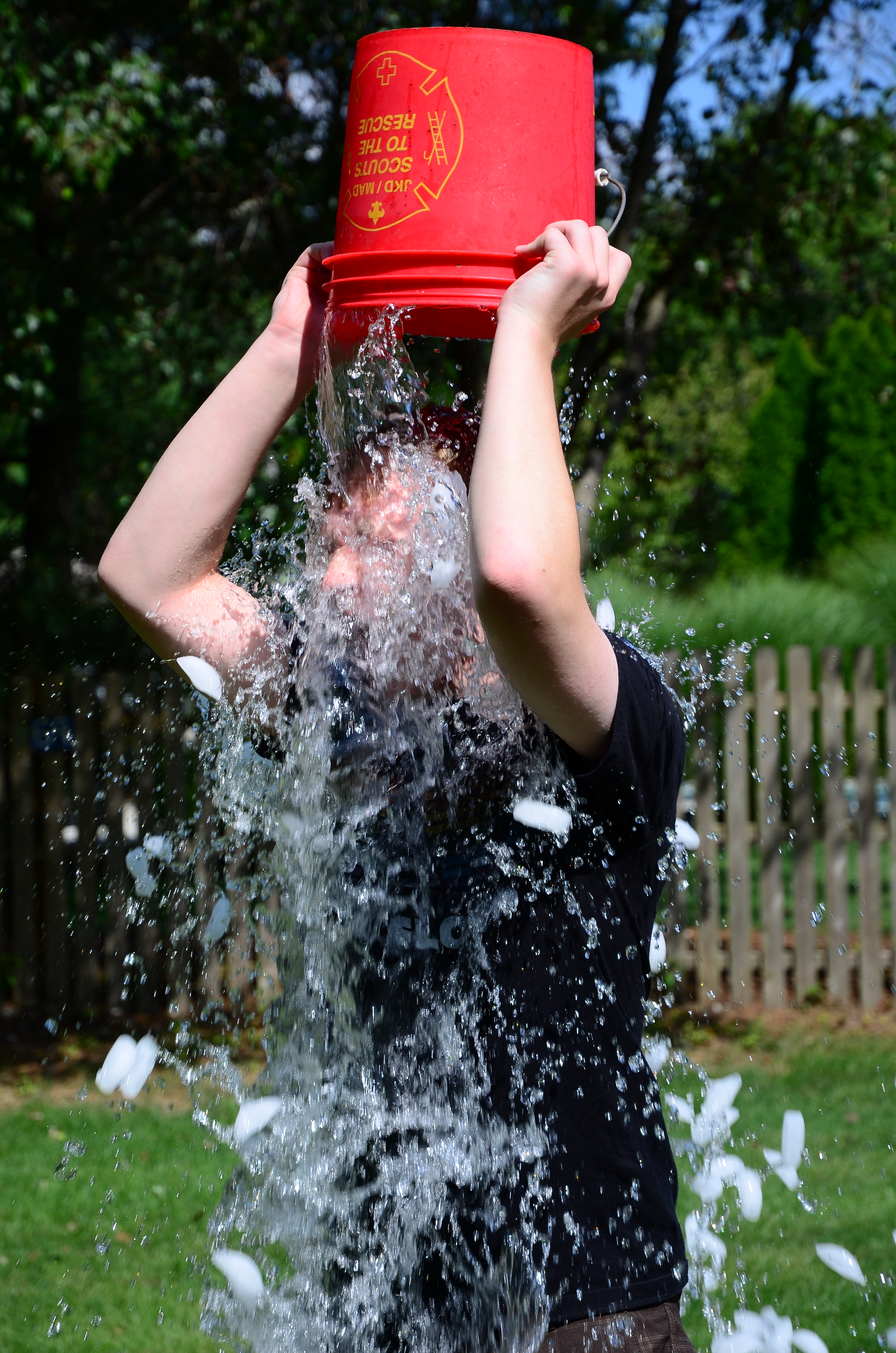 Doing the ALS Ice Bucket Challenge